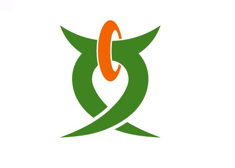 Flag of Azumino Nagano